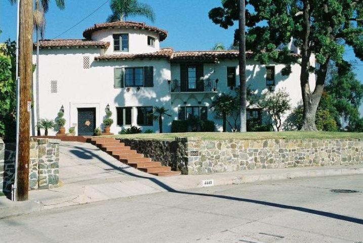 Beth-Sarim House